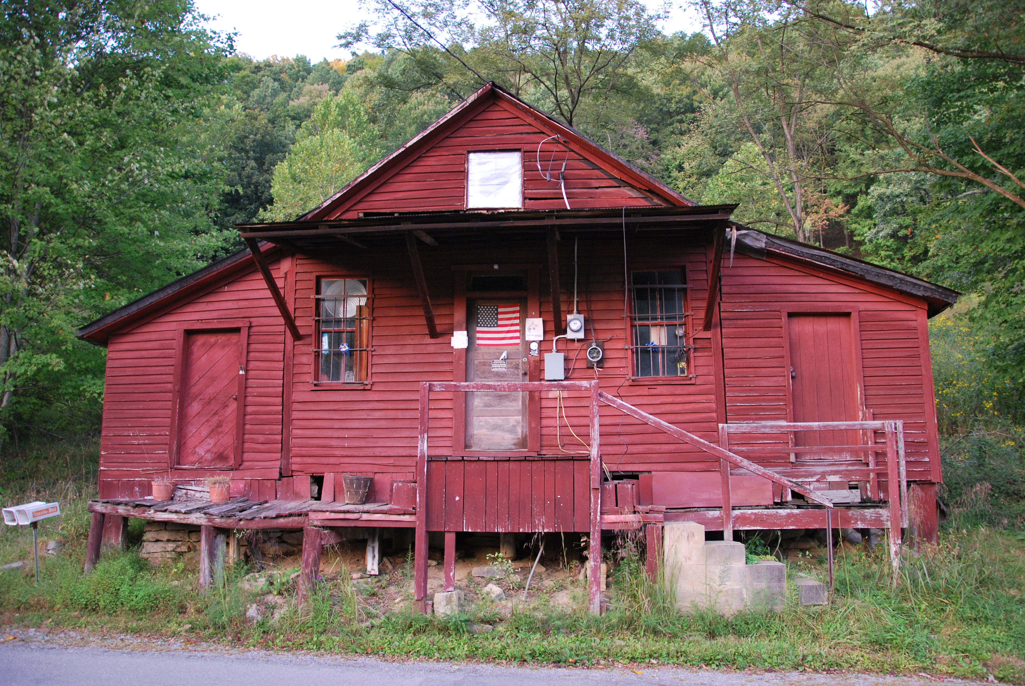 Lowther's Store and Video (NRHP listed site) in Webster County, Wes Virginia.